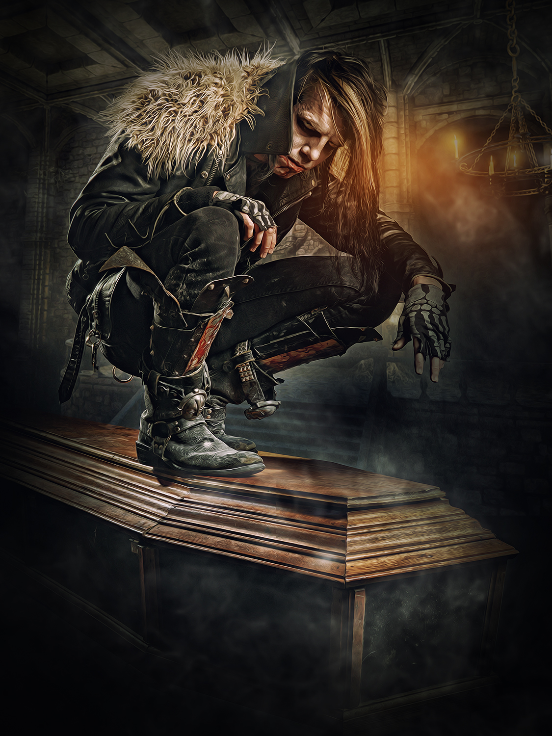 Argyle Goolsby